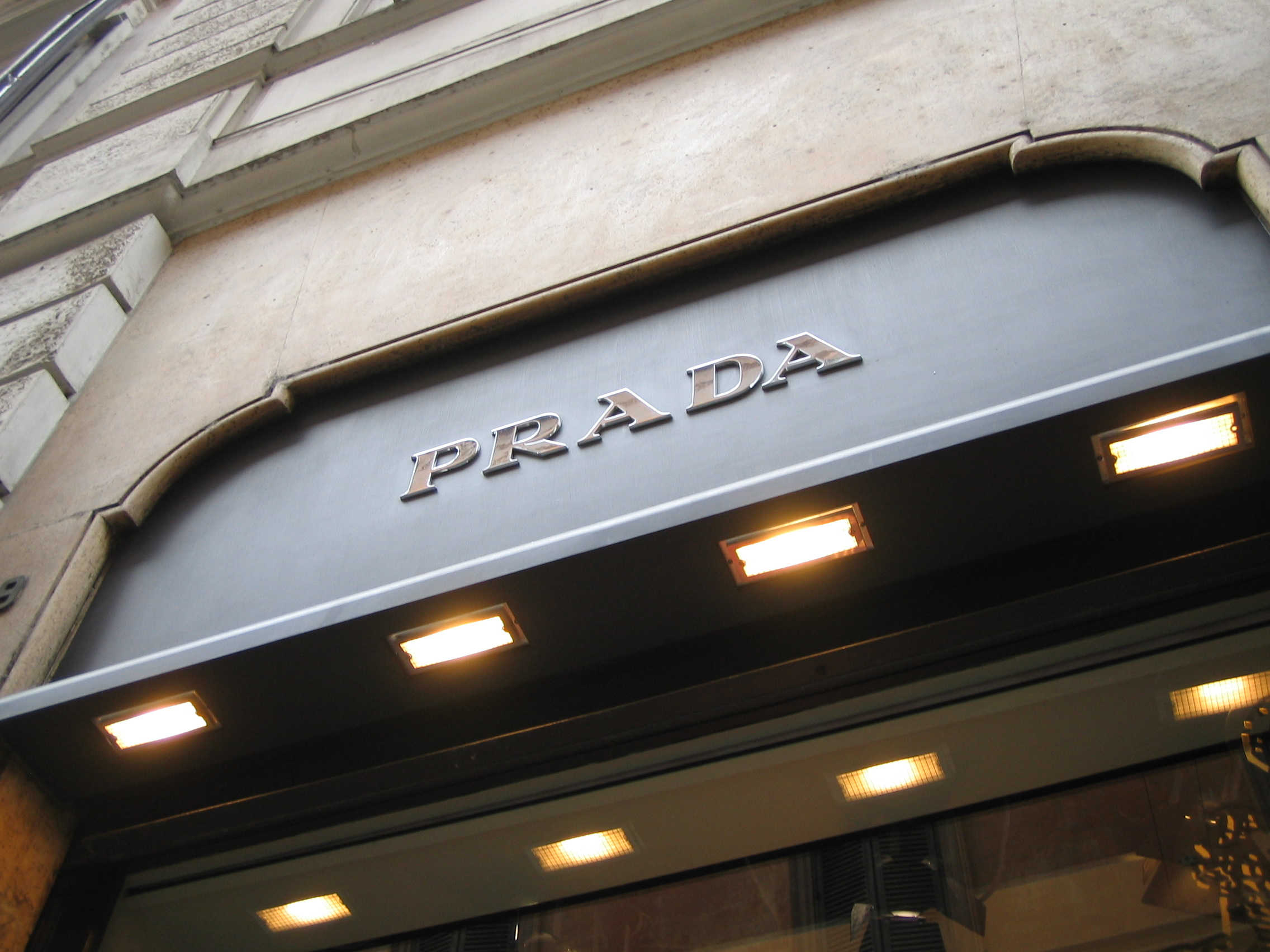 The Prada store in Rome.